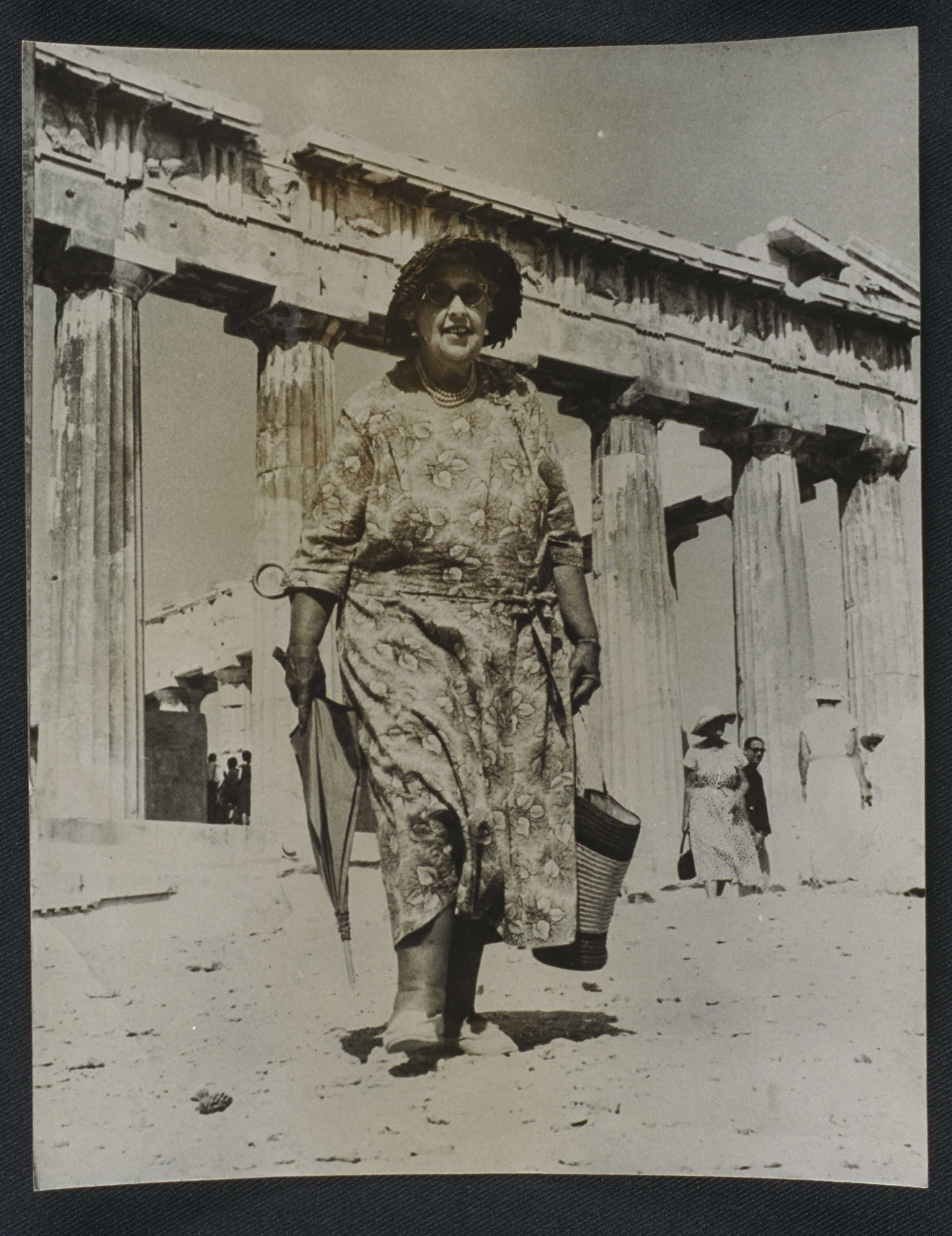 Daily Herald Archive at the National Media Museum. Dame Agatha Christie (1890-1976) was a popular writer of crime novels, short stories and plays. He most popular fictional characters were the detectives Hercule Poirot and Miss Jane Marple. He books have sold around 4 billion copies and have been translated into over 100 languages. This image shows Christie realising a life-long dream of visiting Greece. This photograph has been selected from the Daily Herald Archive, a collection of over three million photographs.